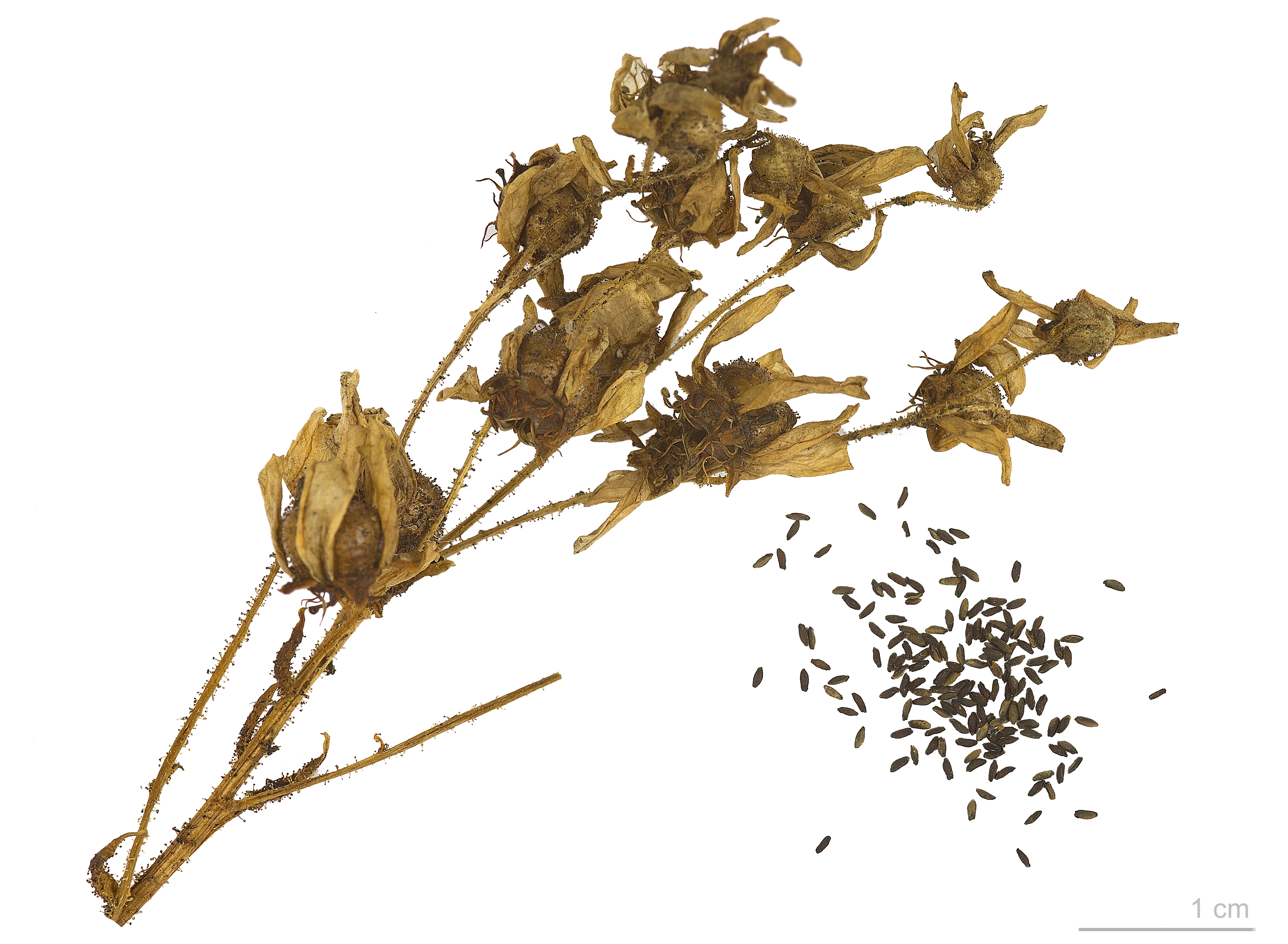 Saxifraga longifolia, seeds